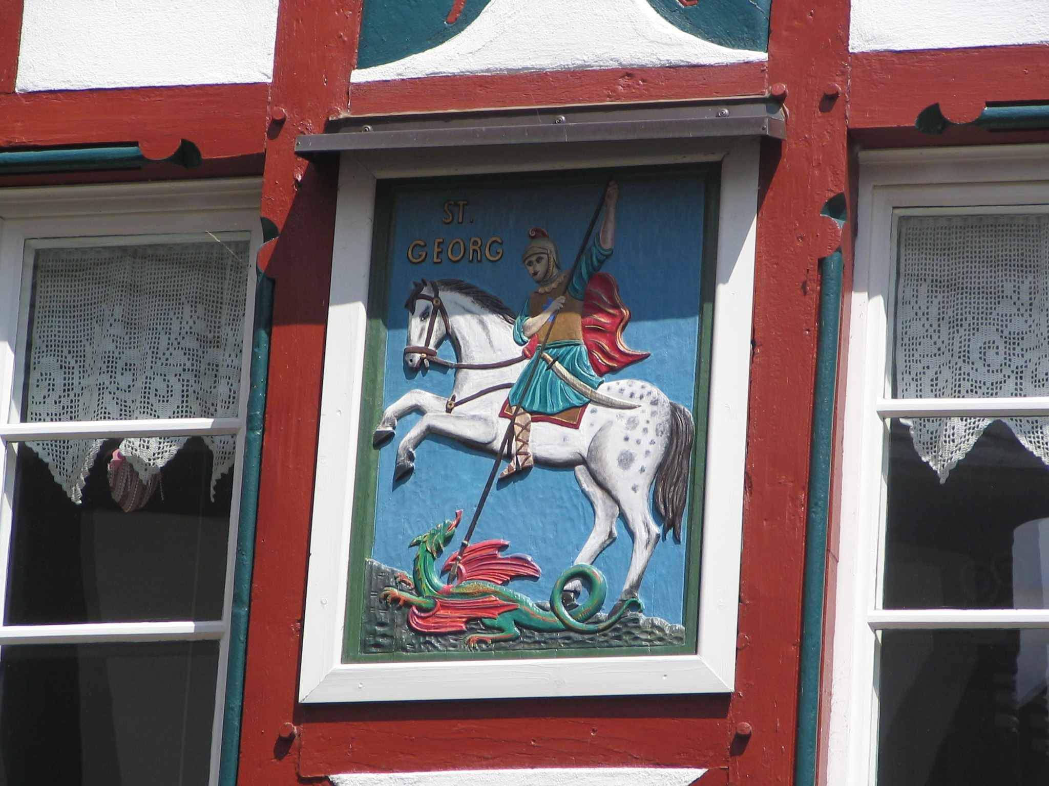 A picture on a building with St George ("St. Georg") on horseback lancing a dragon. Apparently in Germany.